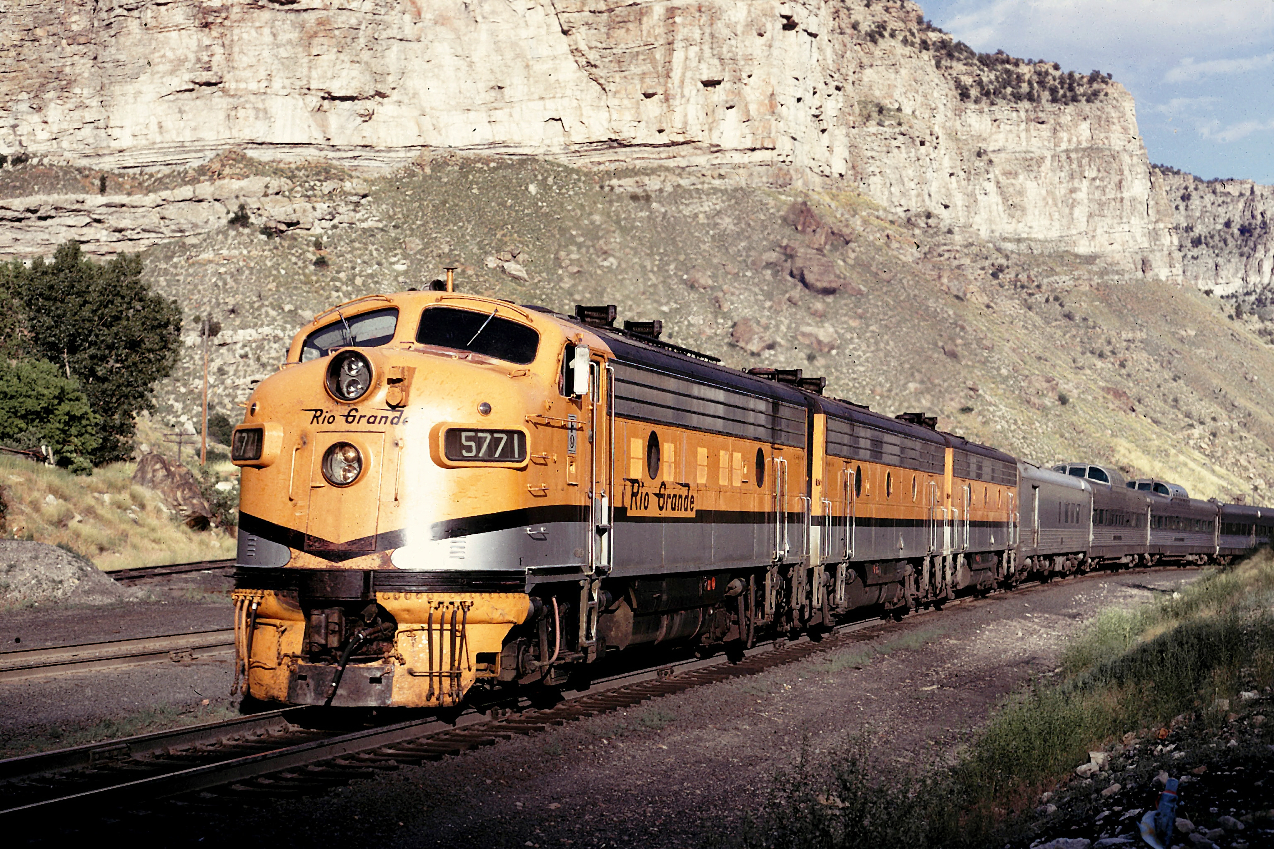 Rio Grande's tri-weekly Zephyr is at Castle Gate in June of 1975